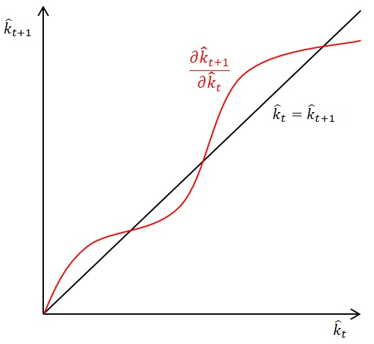 Phase diagram, Overlapping generations model, option 1